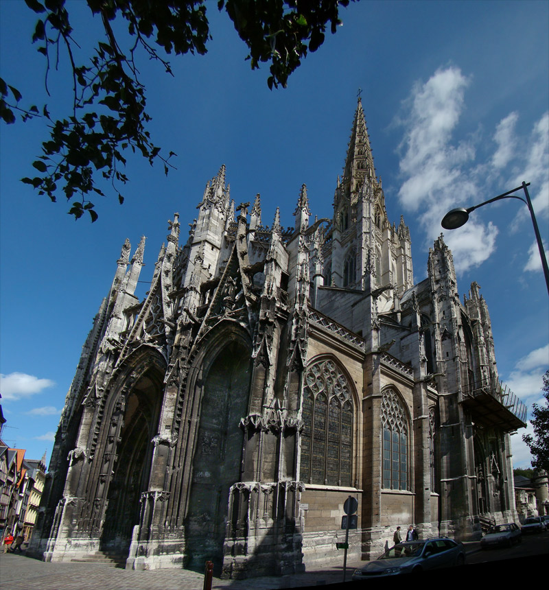 Rouen, Seine-Maritime, Normandie, France. Church of Saint-Maclou.